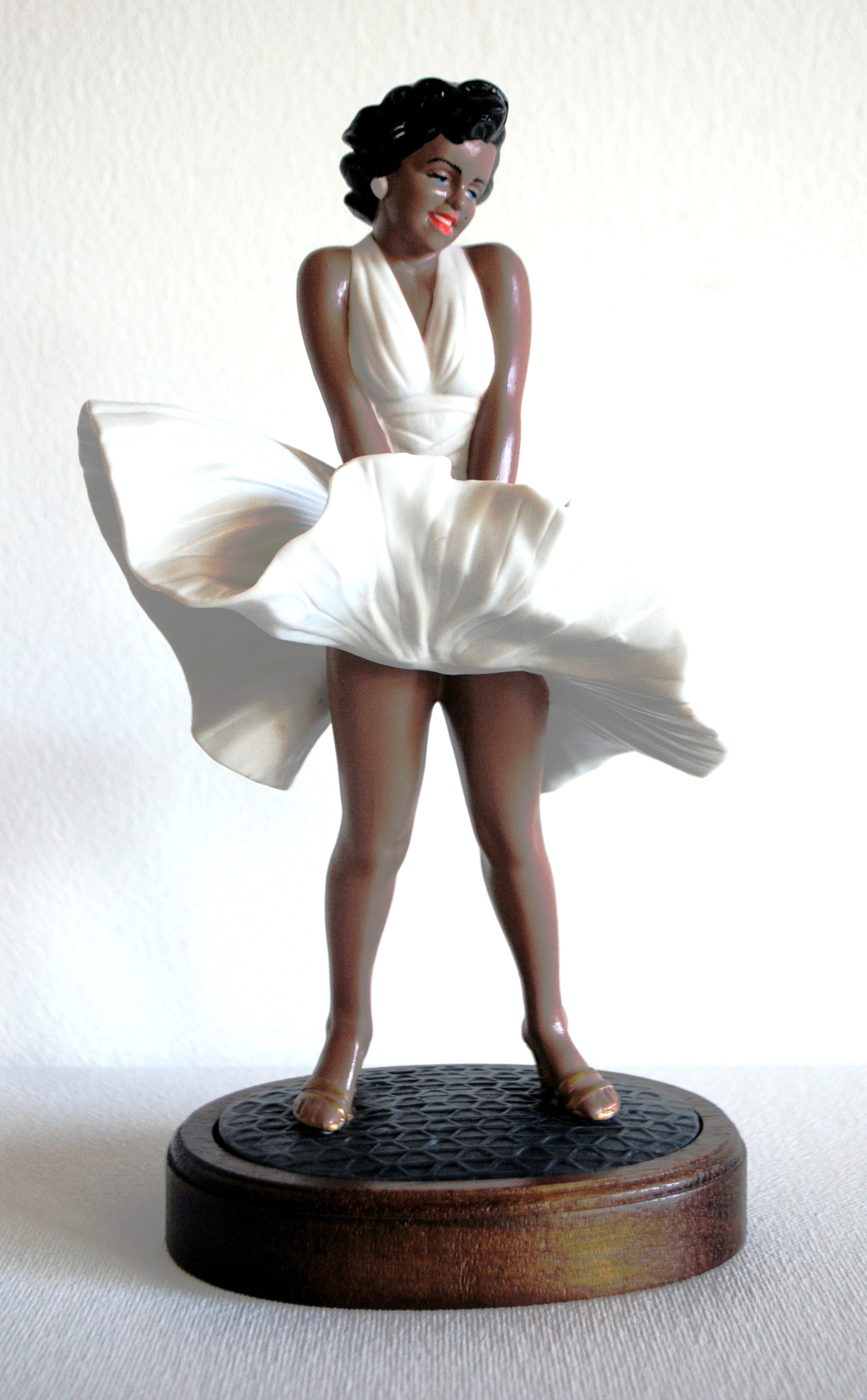 8.5 x 5 x 4.5 in. repurposed porcelain figurine and acrylic from the collection of William Goodman